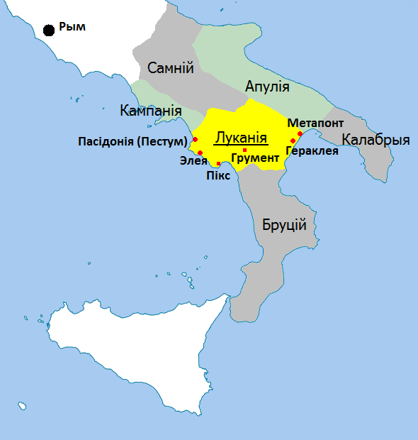 Map of Lucania district